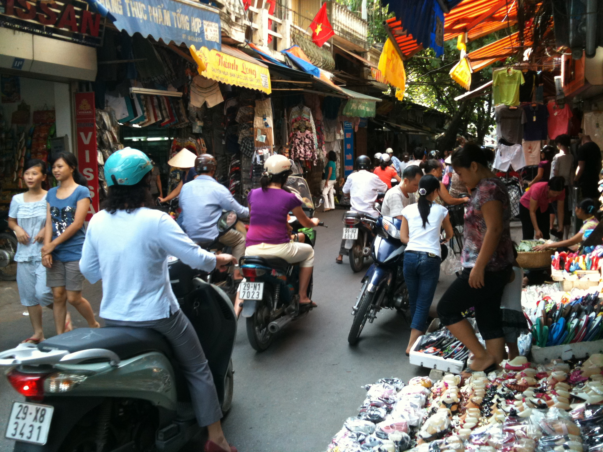 Shops lining the street leading to Ngoc Ha Market, Hanoi.